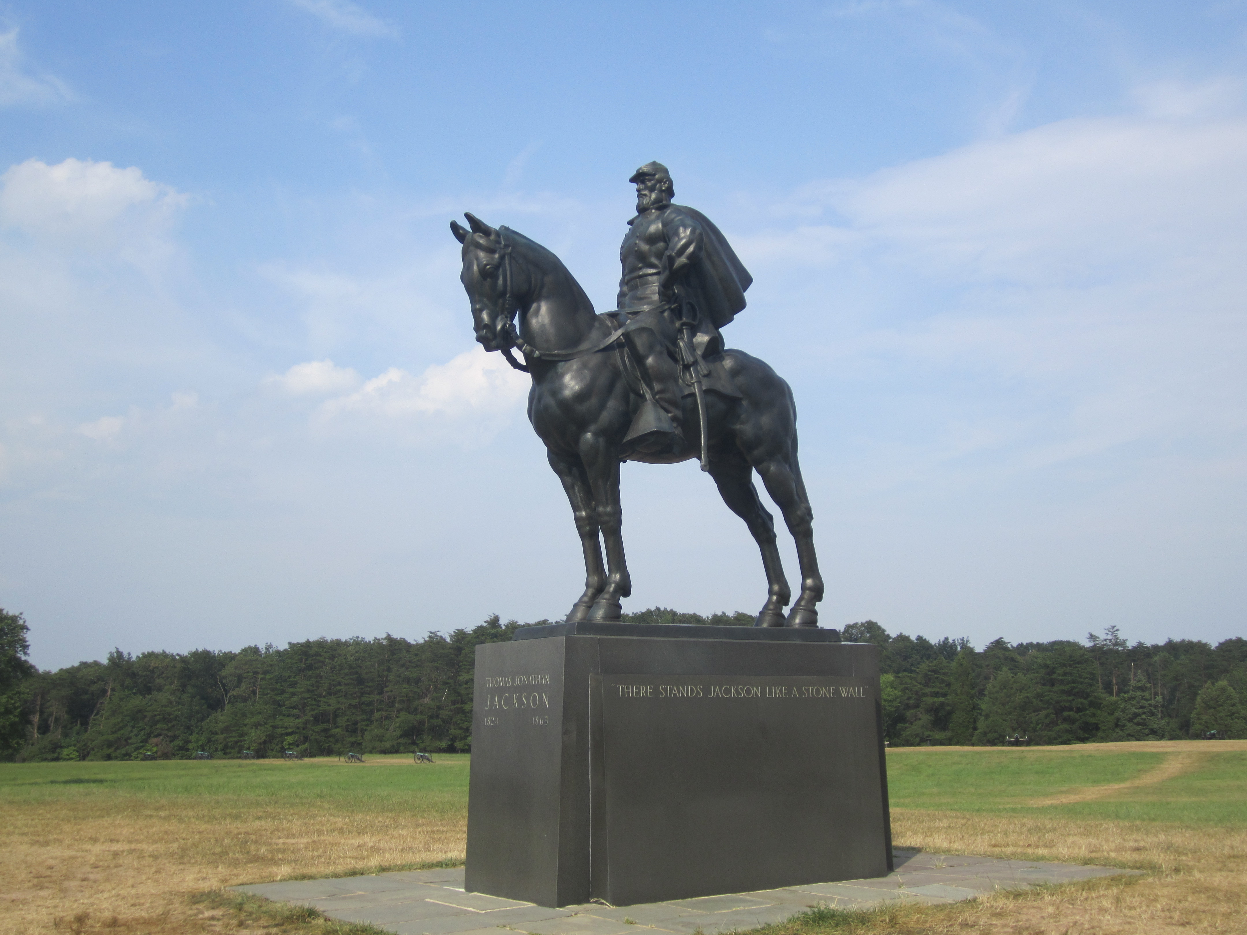 I took photo with Canon camera at Manassas, VA, National Battlefield.